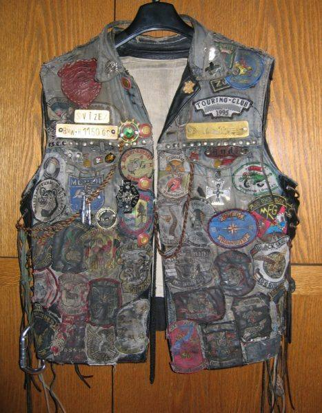 ´Kutte (vest) of a member of an motorcycle club - 15 years old at date of photo